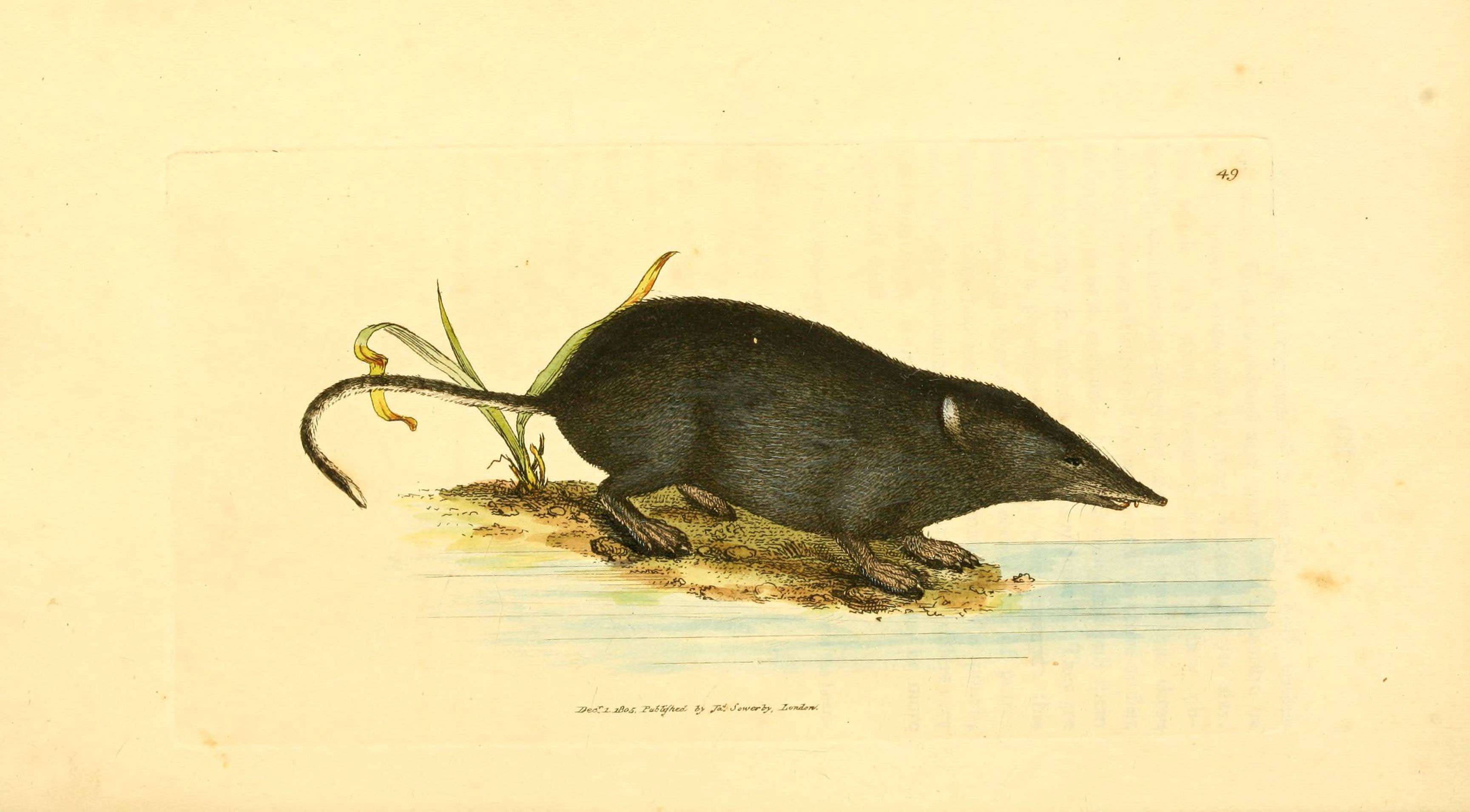 The British miscellany, or, Coloured figures of new, rare, or little known animal subjects : many not before ascertained to be inhabitants of the British Isles : and chiefly in the possession of the author, James Sowerby.